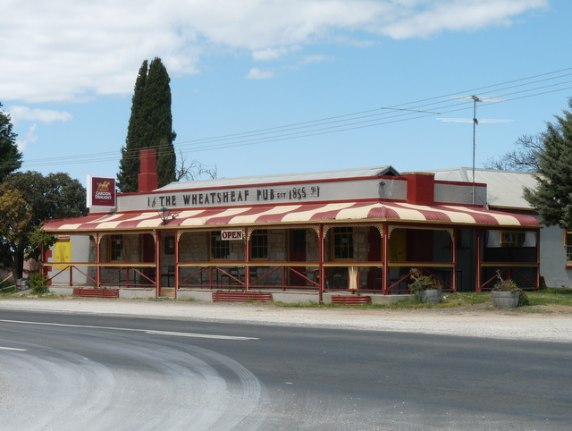 The Wheatsheaf hotel at Allendale North, South Australia